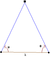 Triangulation procedure